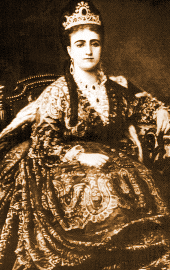 A personal photo for Khediva Jenaniyar wife of ismail pasha of egypt when she was at young age.